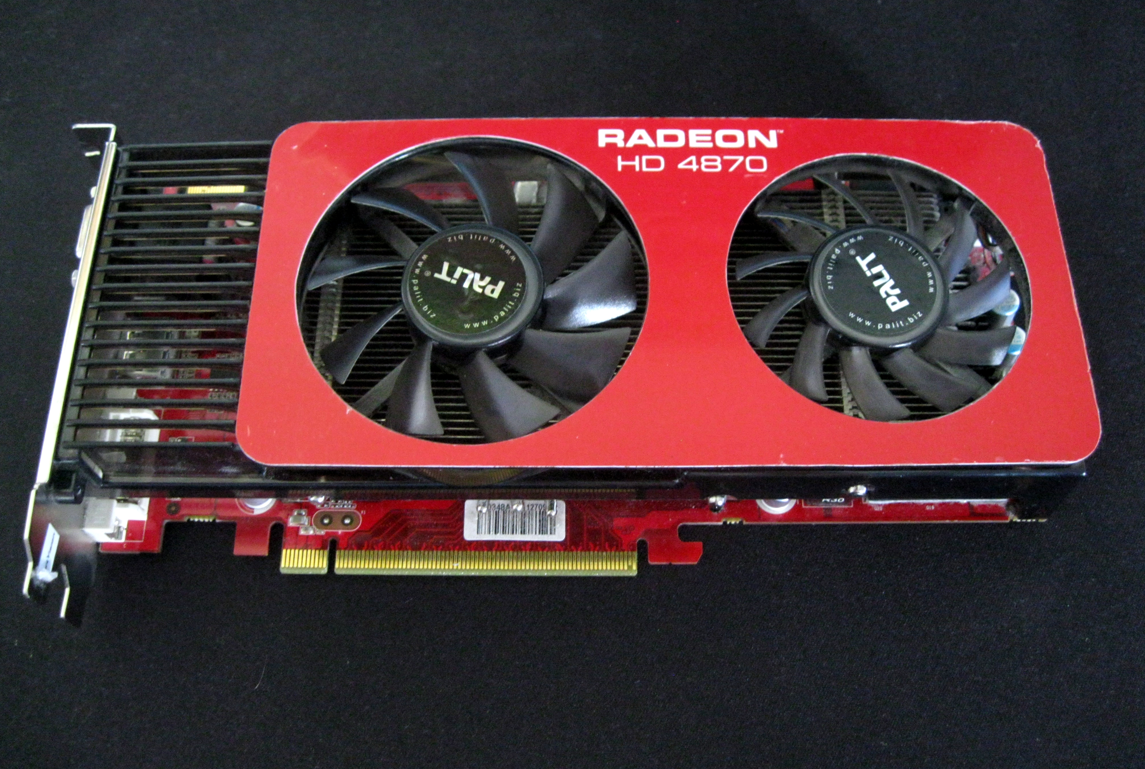 AMD Radeon HD 4870 - Palit video card.